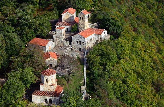 nekresi